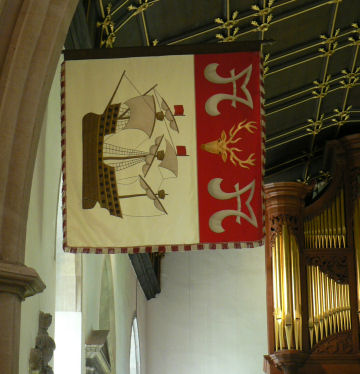 A nearby plaque reads: The Garter Banner of Lord Wilson of Rievaulx hangs in Jesus College Chapel by permission of Garter Principal King of Arms